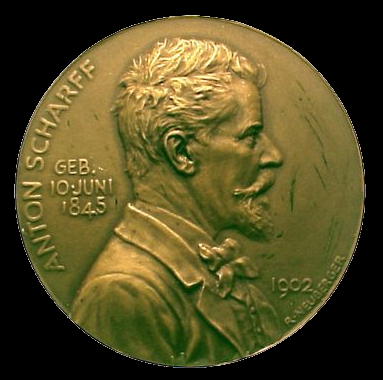 Memorial medal for Anton Scharff (June 10, 1845-July 6, 1903).